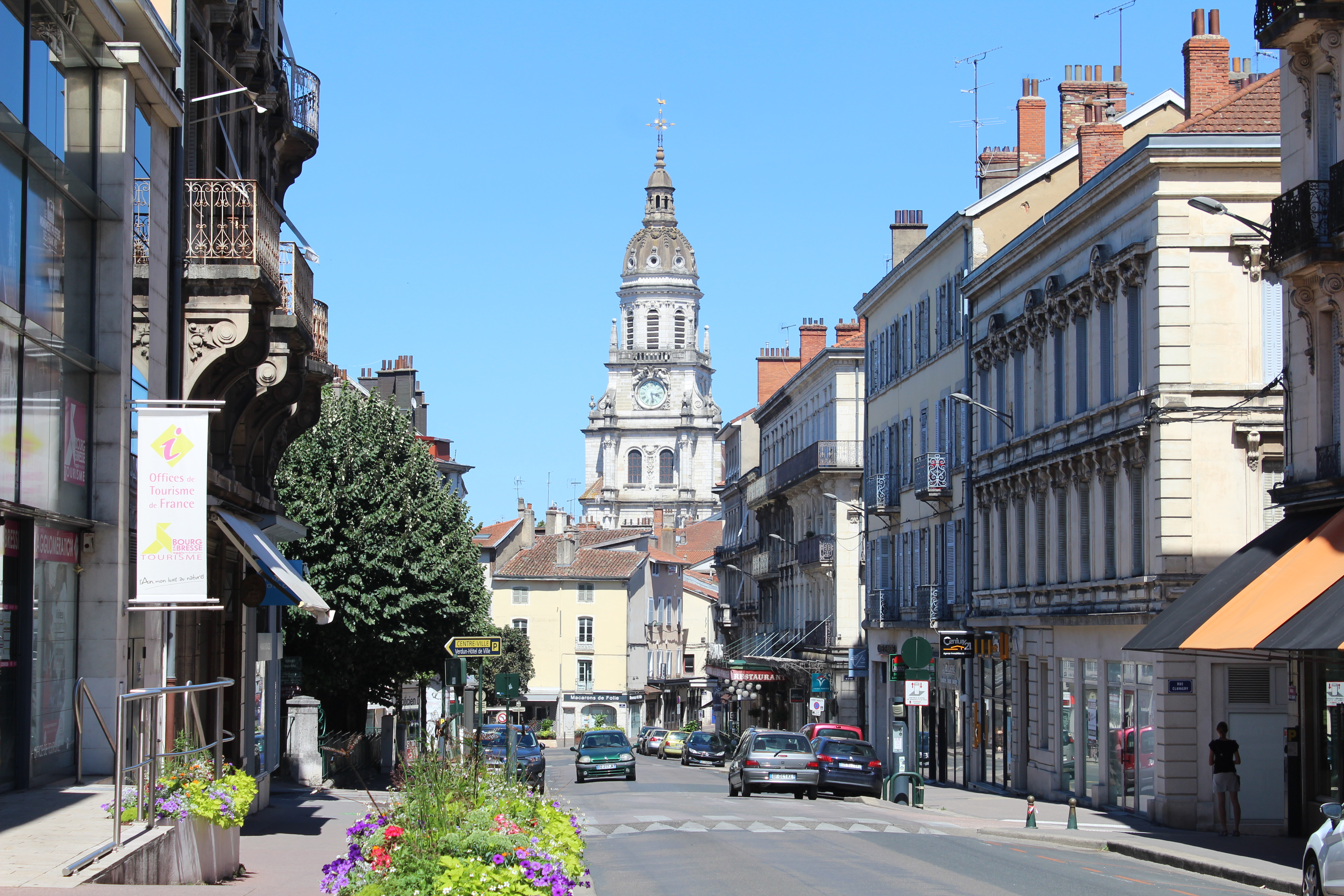 Alsace-Lorraine avenue with Our Lady cathedral in Bourg-en-Bresse, France.